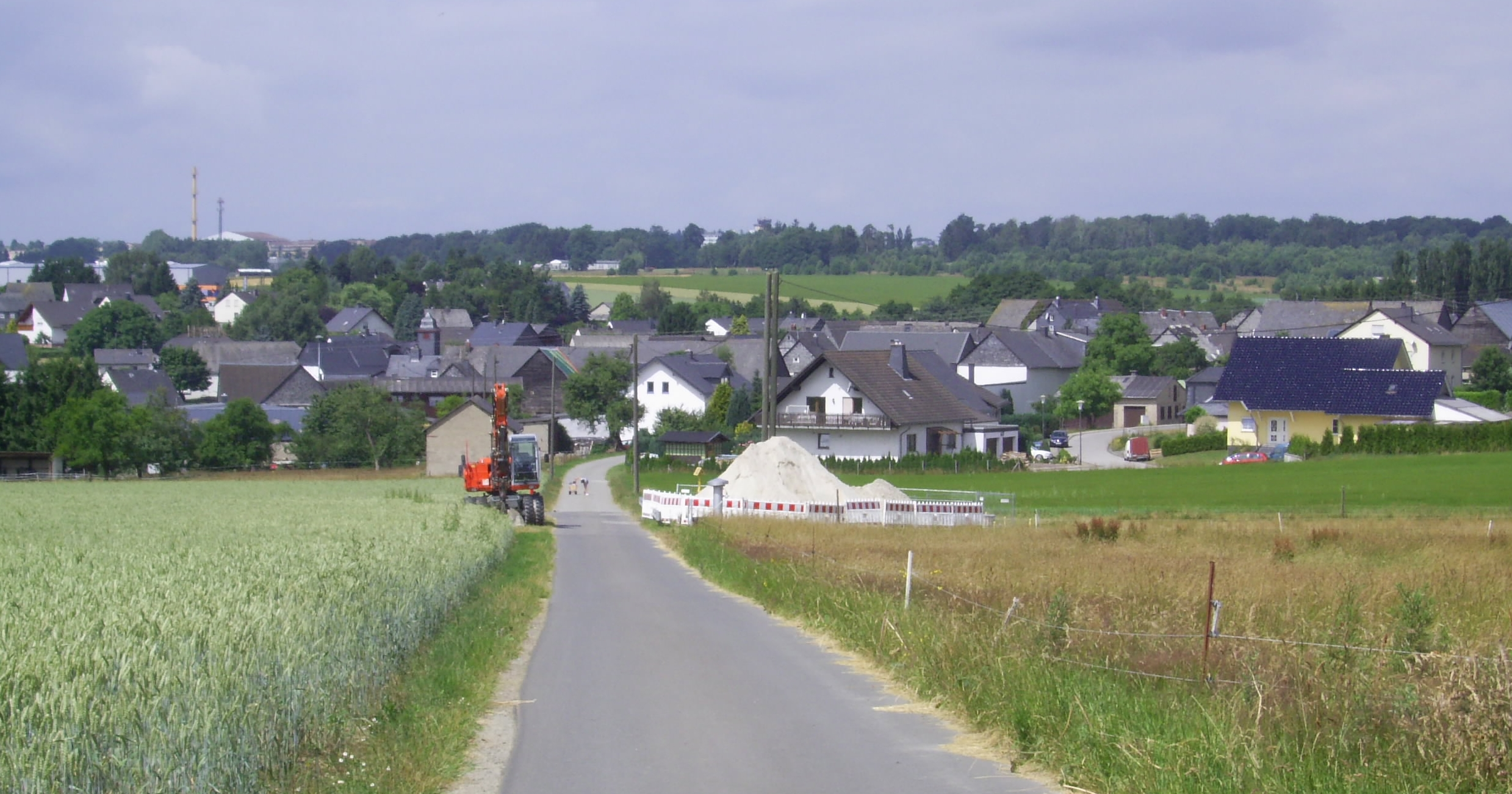 Village Bärenbach in the Hunsrück landscape, Germany.